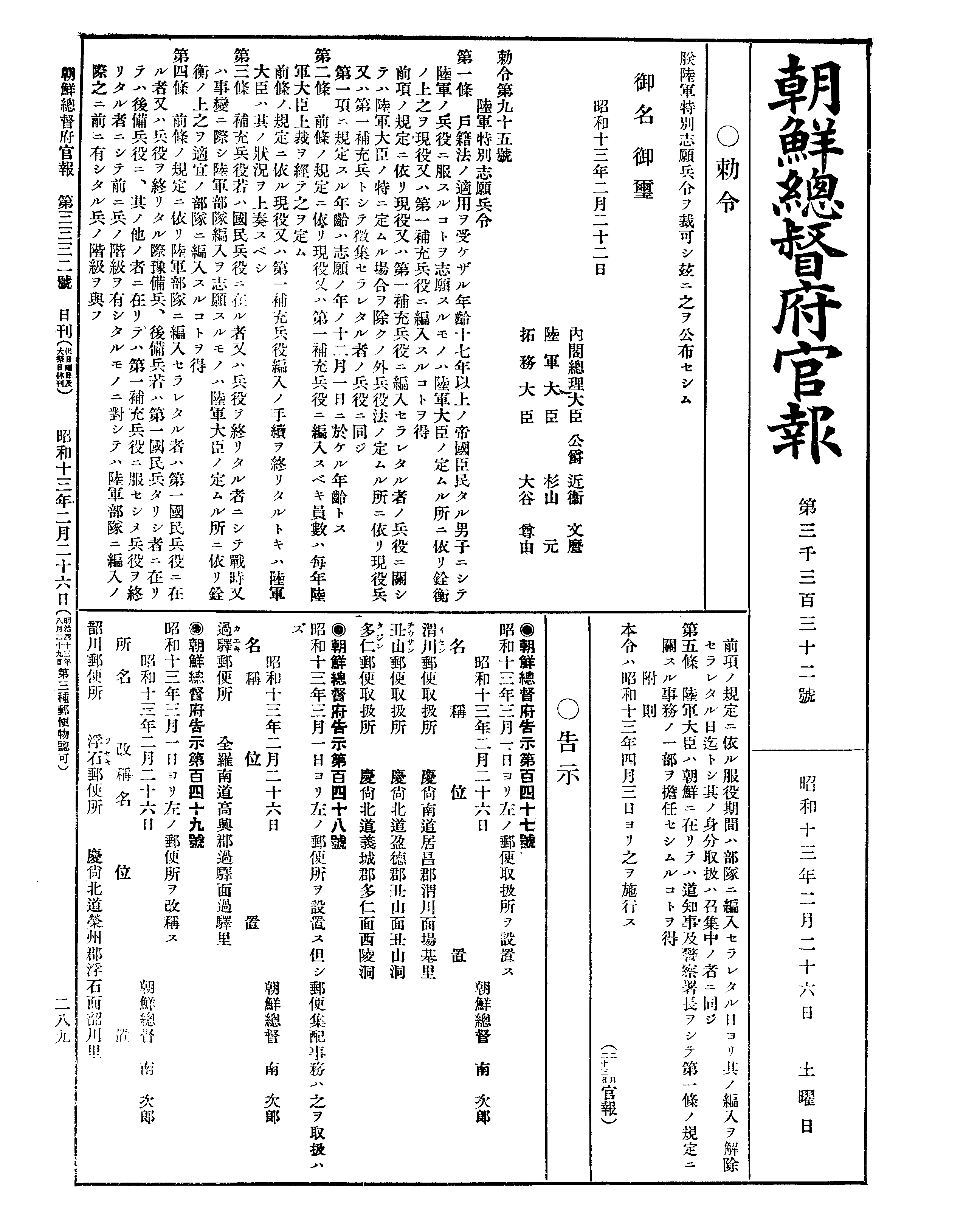 This page proclaims the Army Special Volunteer Ordinance.